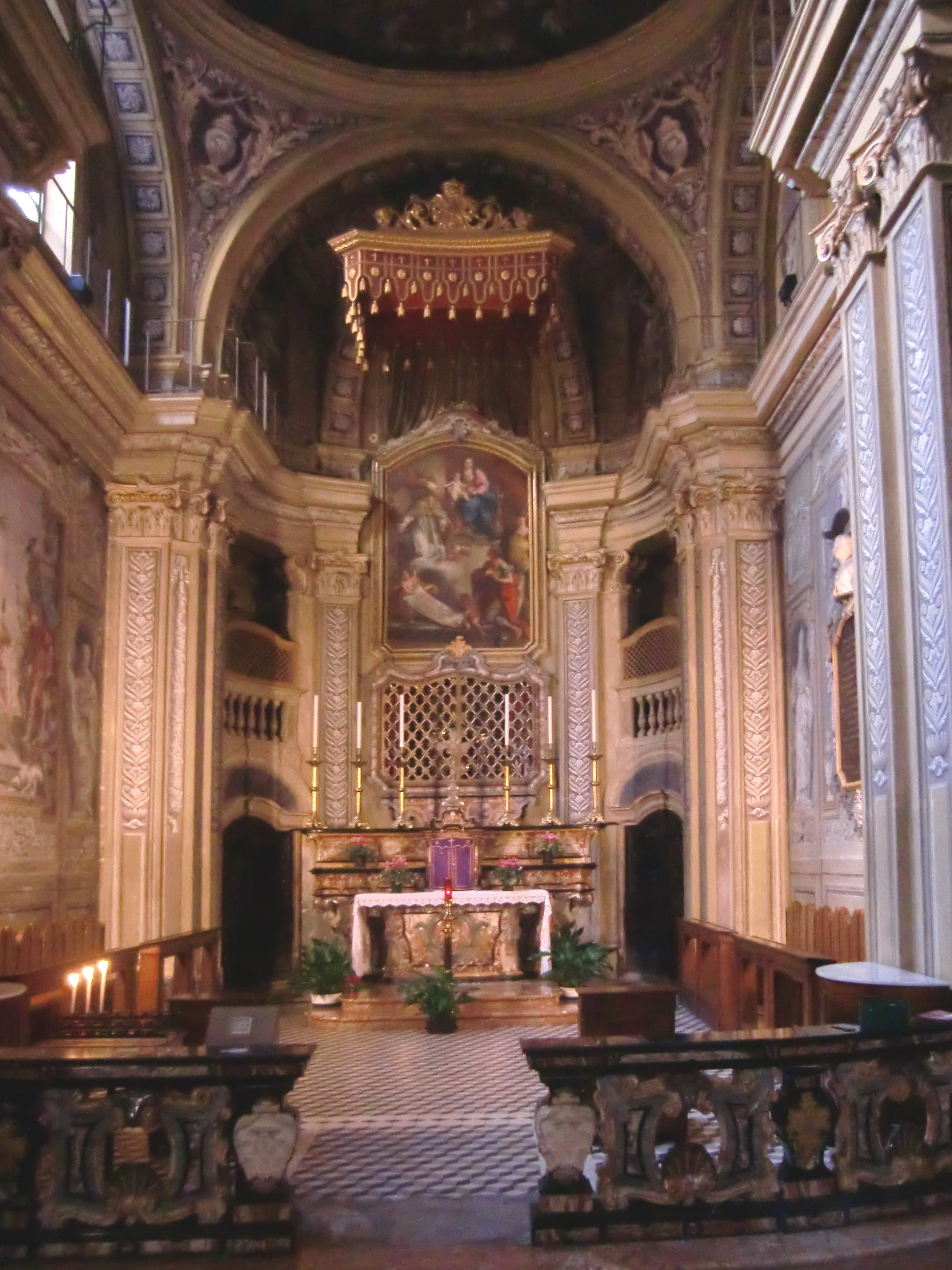 Ivrea, Cathedral, the Santissimo Sacramento chapel